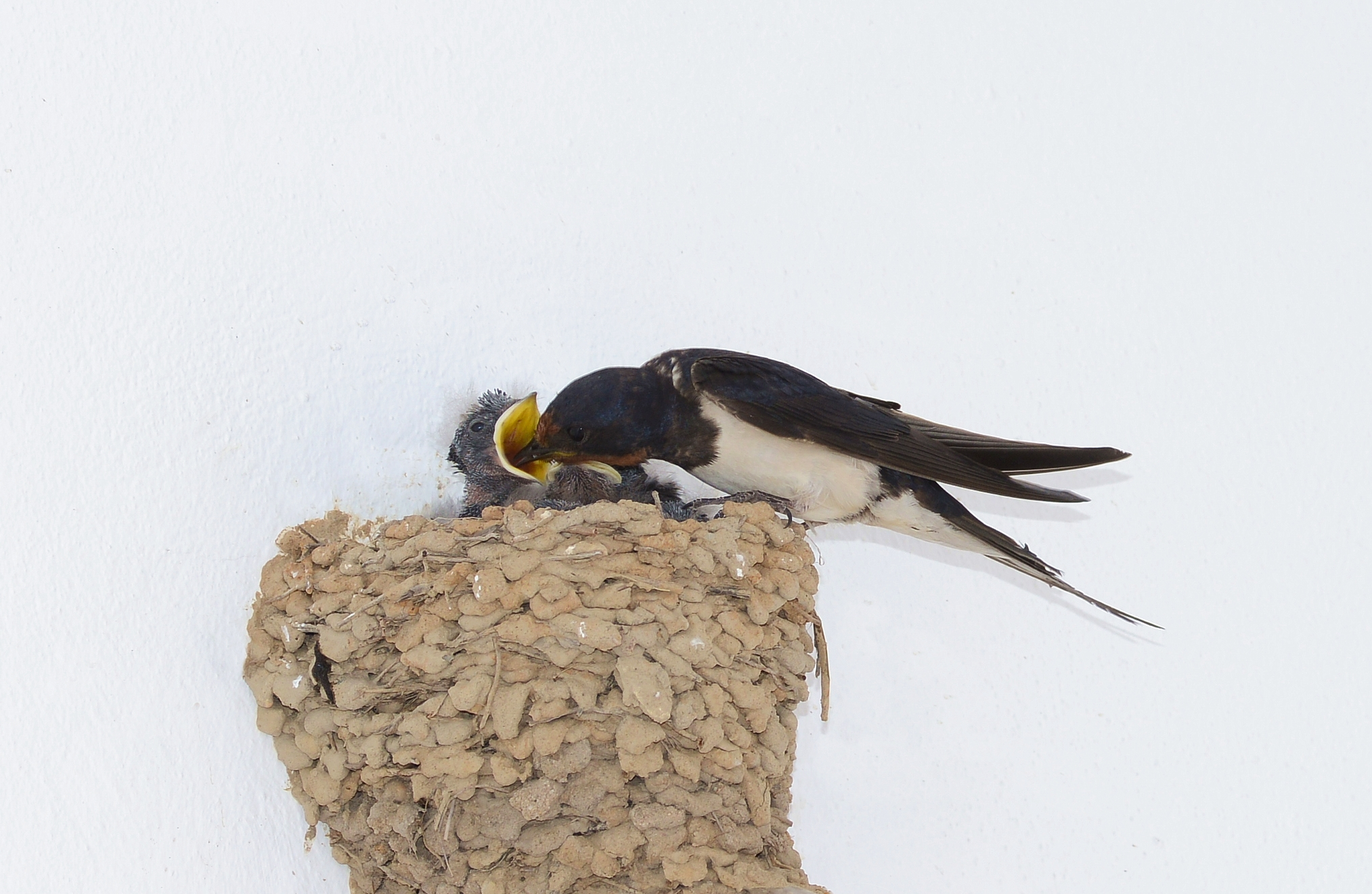 Juvenile Barn Swallws (Hirundo rustica) being fed in the nest. Porto Covo, Portugal